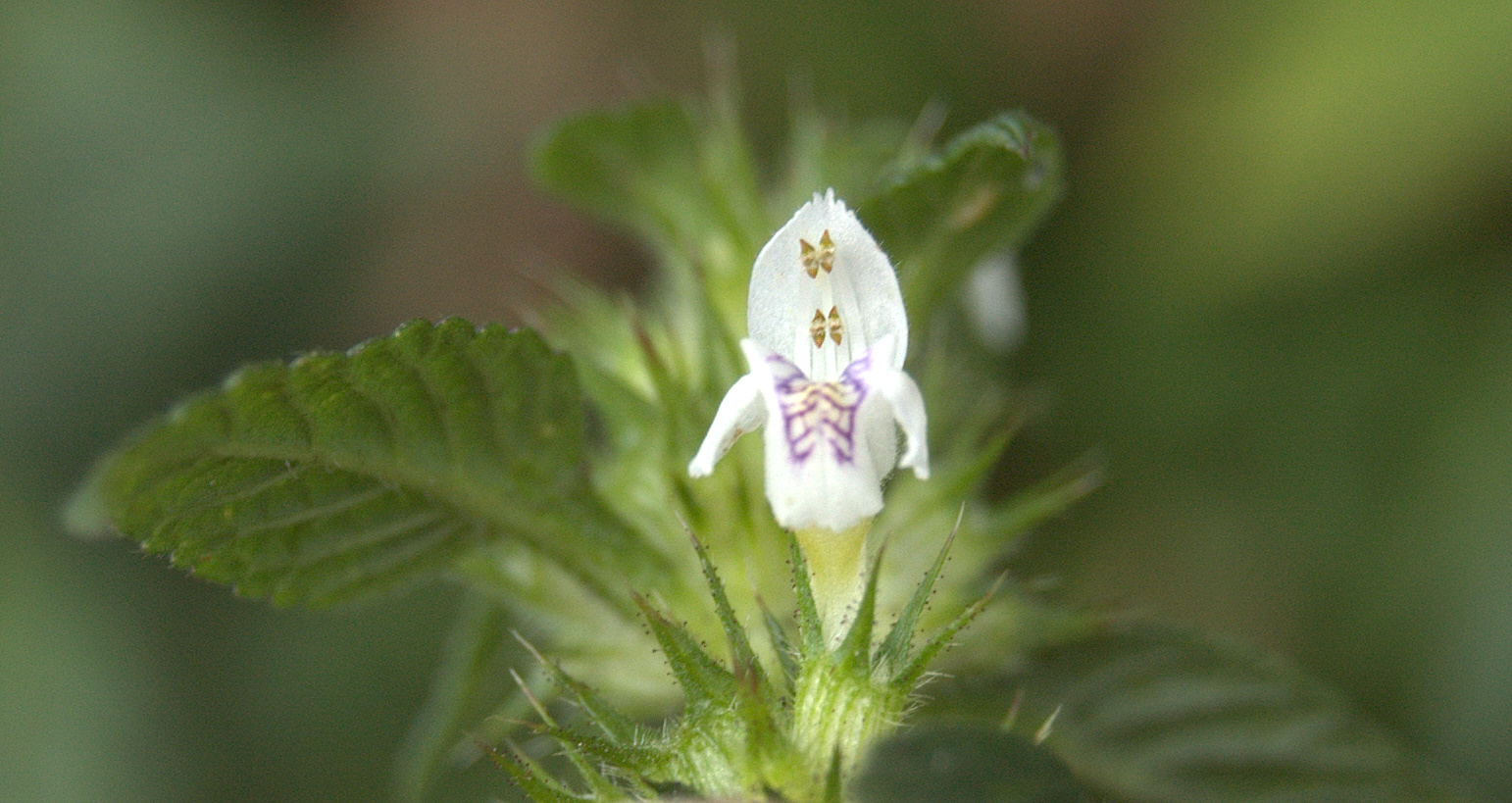 Brittlestem hempnettle, Bristlestem hempnettle (or possibly Common Hemp-Nettle)